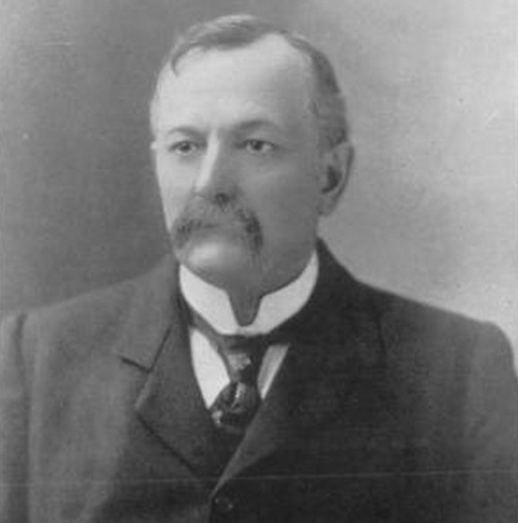 Edwin F. Uhl, Michigan politician and American diplomat